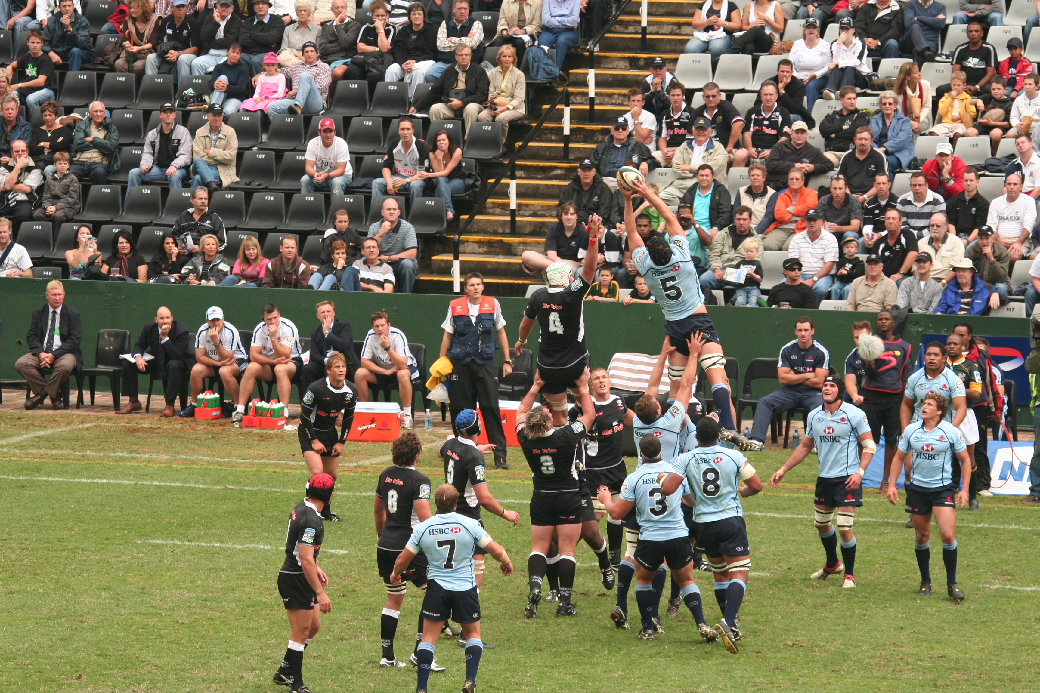 A throw in during a rugby game held at Kingsmead Stadium, Durban This is an image with the theme "Play" from: South Africa